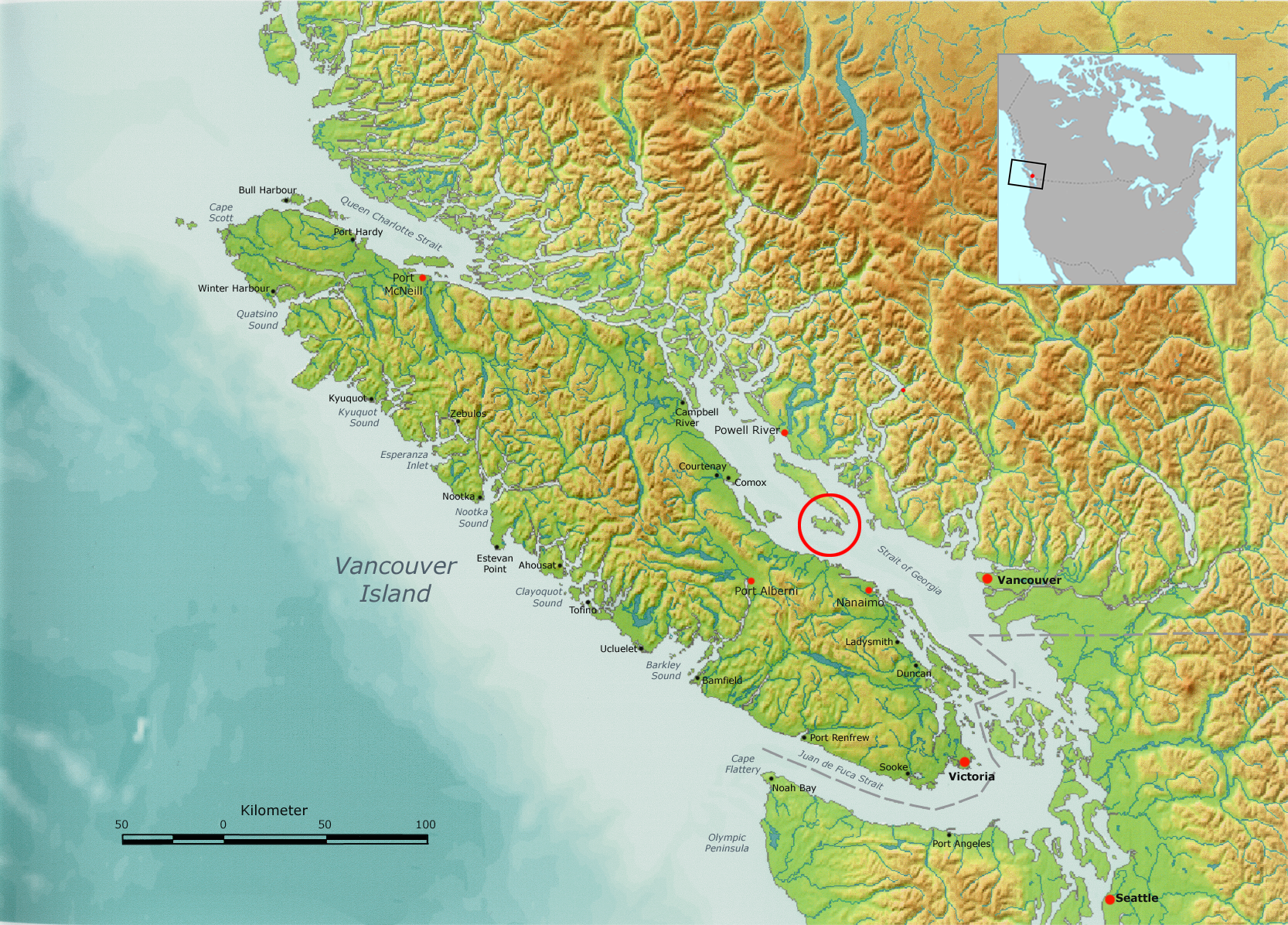 Vancouver Island, with Lasqueti Island circled in red. National borders also included.